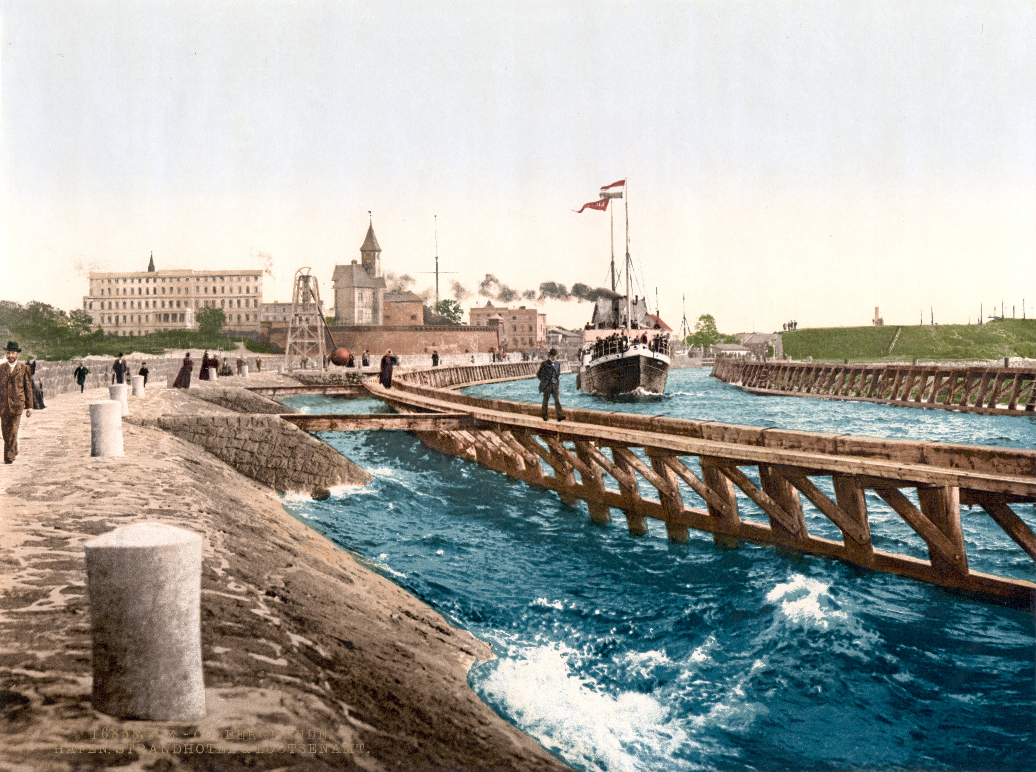 Kaufmann's "Strand Hotel" and pilot station Colberg, Pommerania, Germany (i.e Kołobrzeg Poland)